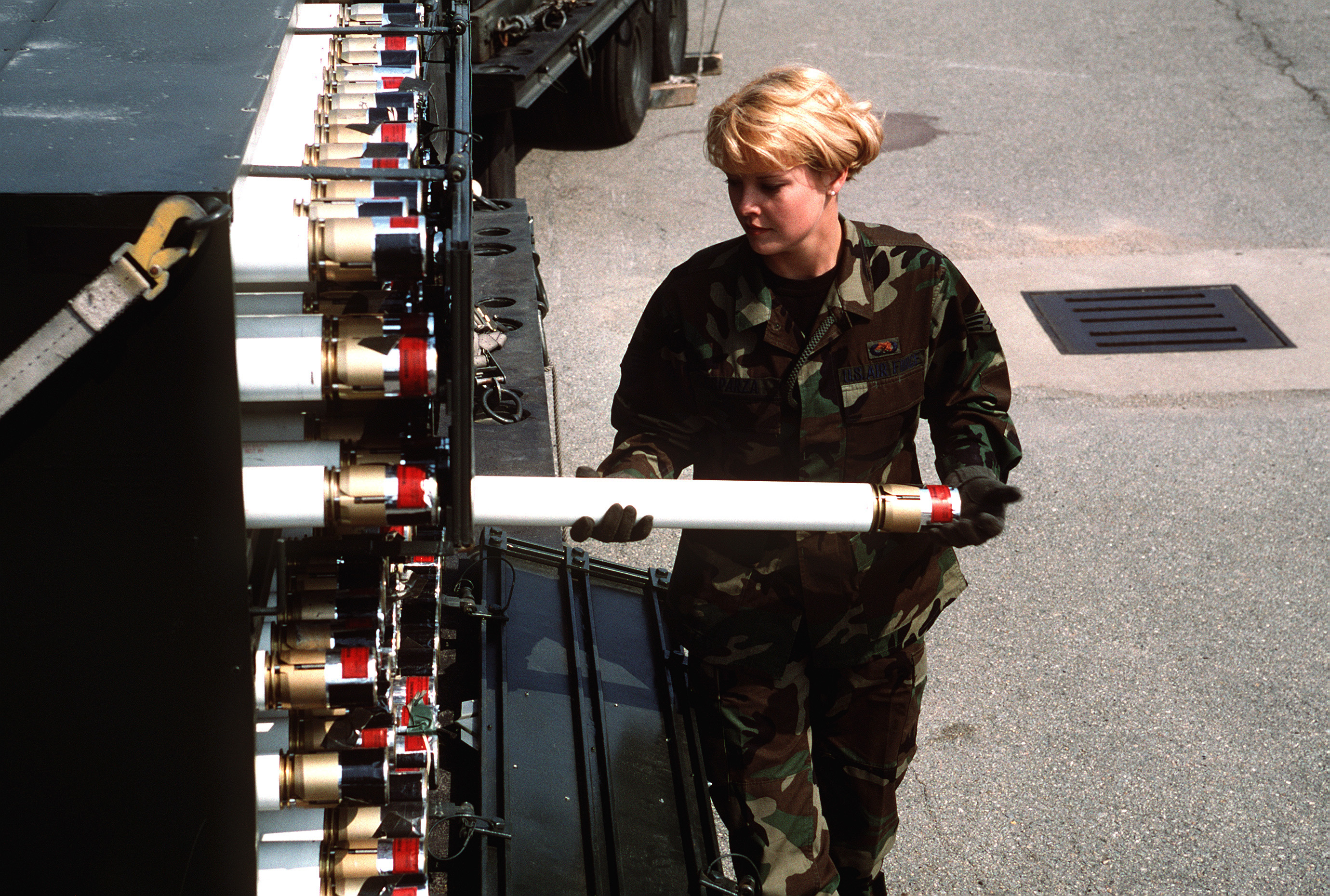 Senior Airman Sarah Esparza, 51st Maintenance Squadron, inspects 2.75 White Phosphorous Rockets.Location: OSAN AIR BASE, KYONG GI-DO REPUBLIC OF KOREA (KOR)